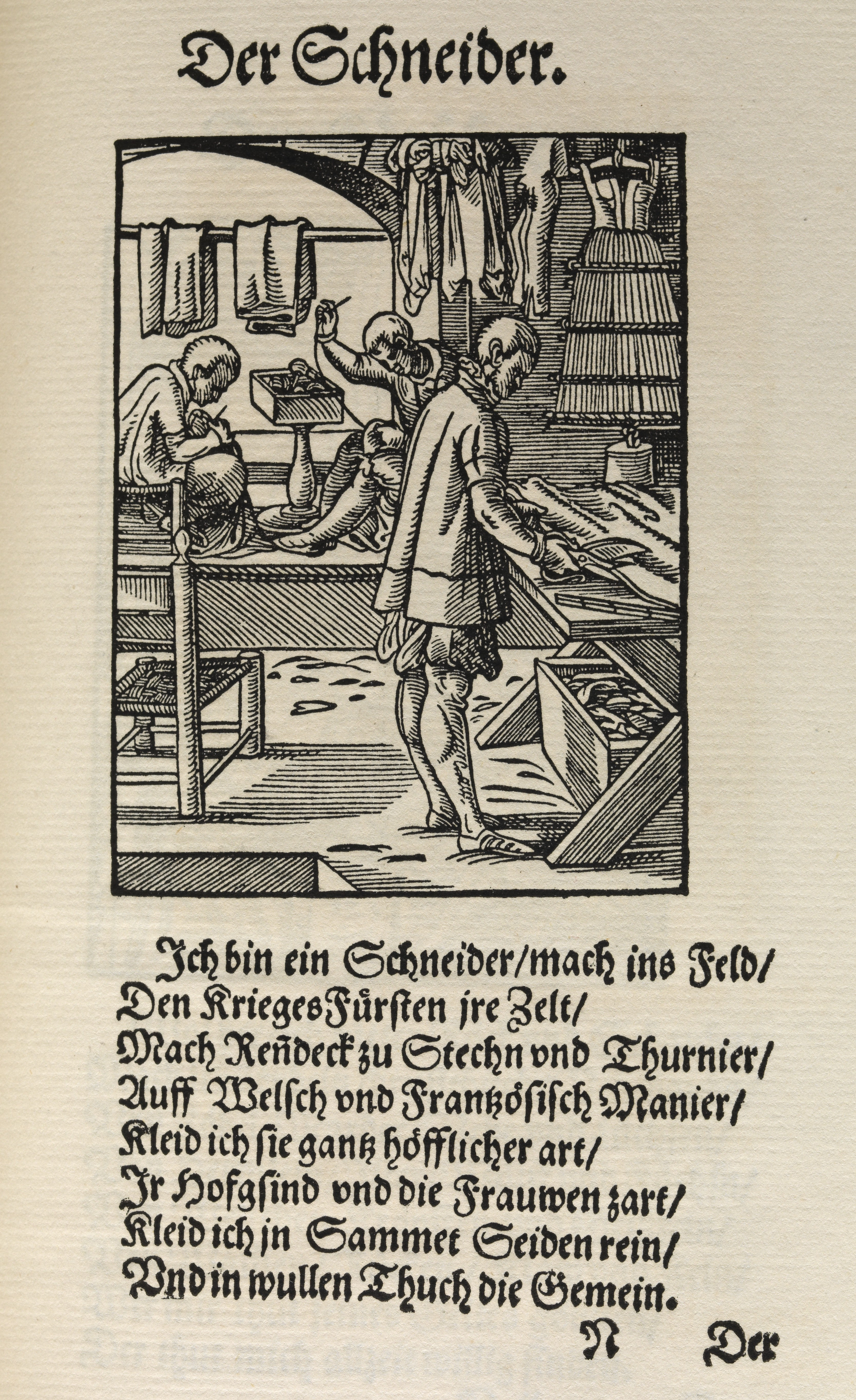 Der schneider, or tailor, from Jost Amman's Stände und Handwerker. Three figures work to make clothes; in the foreground stands a figure using large shears to cut fabric, beind him two men sit and sew using needles. In the background is a dress of a contemporary style and other clothes hang from a rail. General Collections Keywords: Jost Amman; Hans Sachs